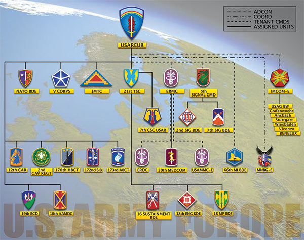 Graphic Depiction of U.S. Army Europe units.